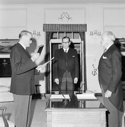 John McEwen being sworn in as the 18th Prime Minister of Australia